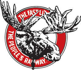 Intercolonial Railway of Canada herald.